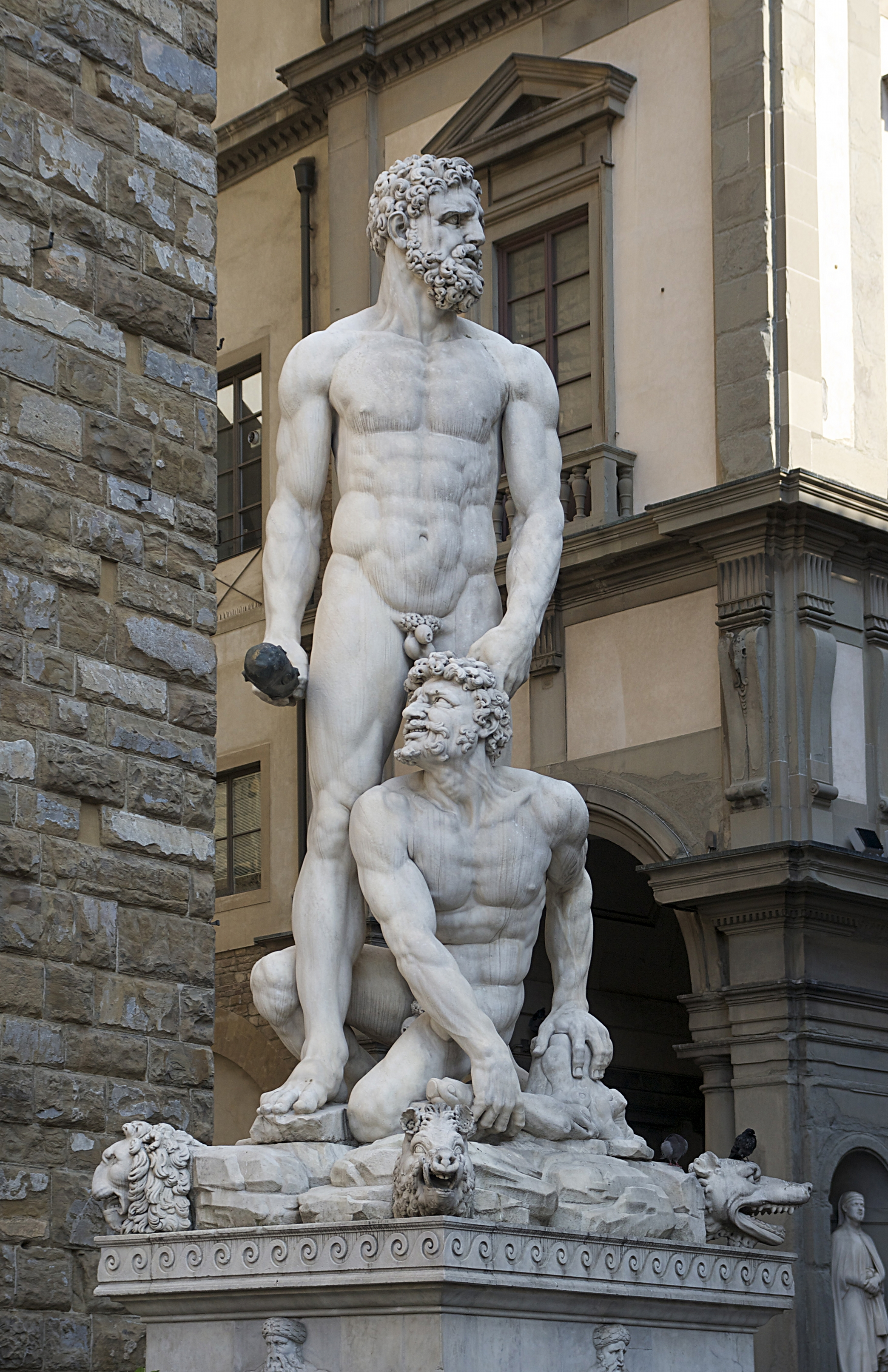 Statue of Hercules & Cacus by Baccio Bandinelli in front of the Palazzo Vecchio in Florence, Italy.